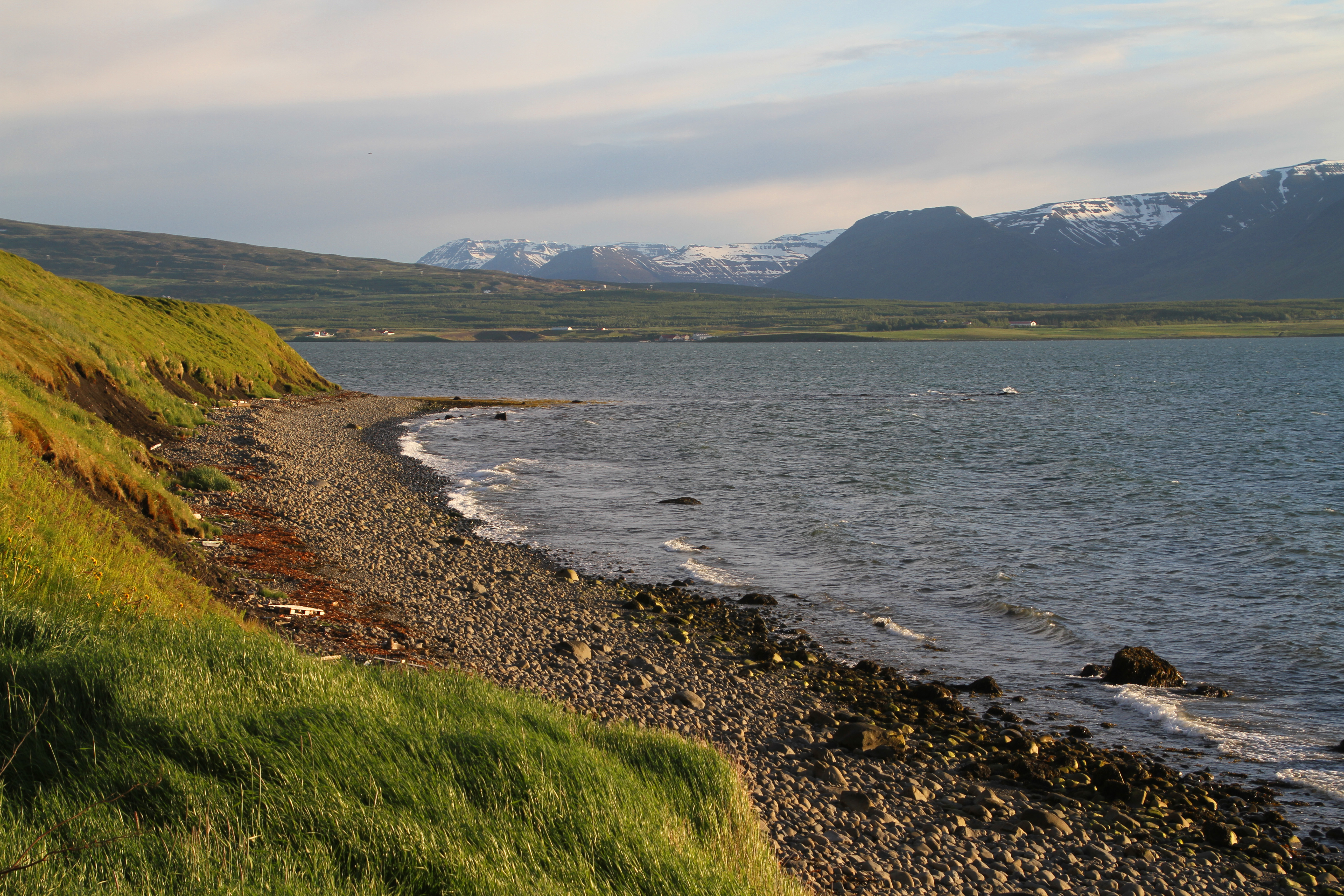 Near farm and hotel Sveinbjarnargerdi at Road 83 at Eyjafjörður in Iceland 2018.